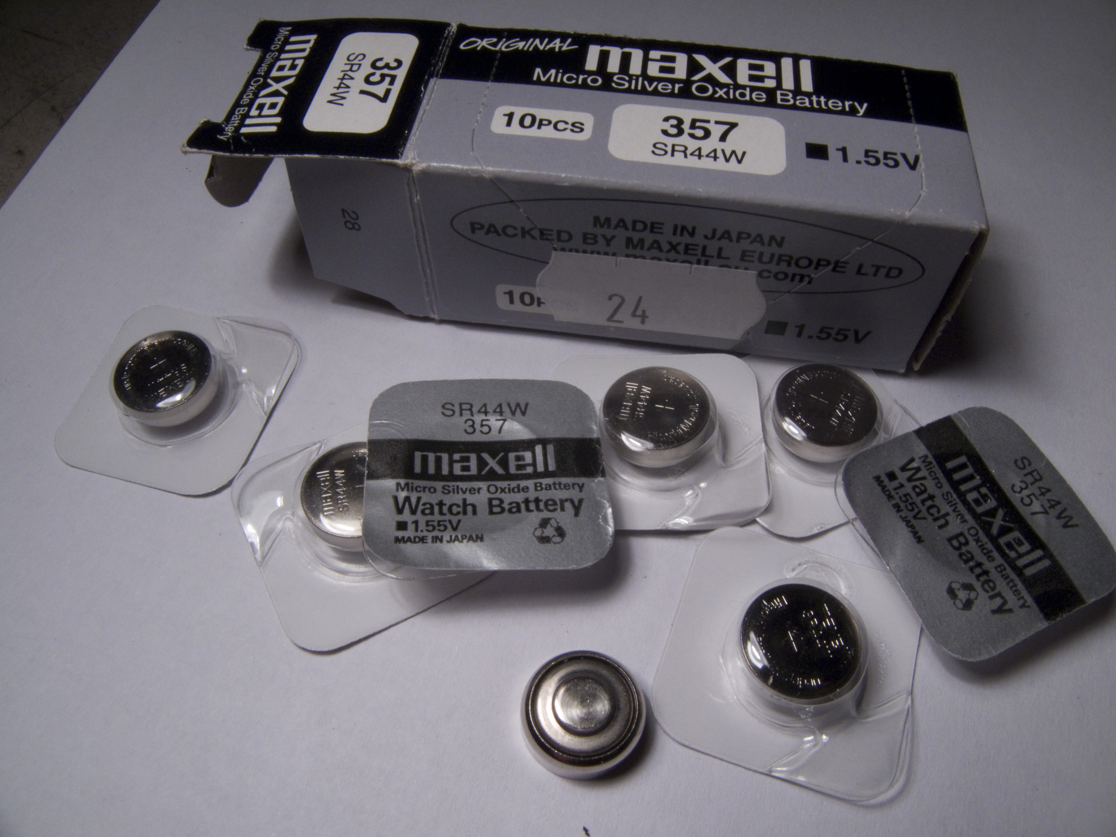 Silver oxide batteries Česky: Stříbro-oxidové baterie